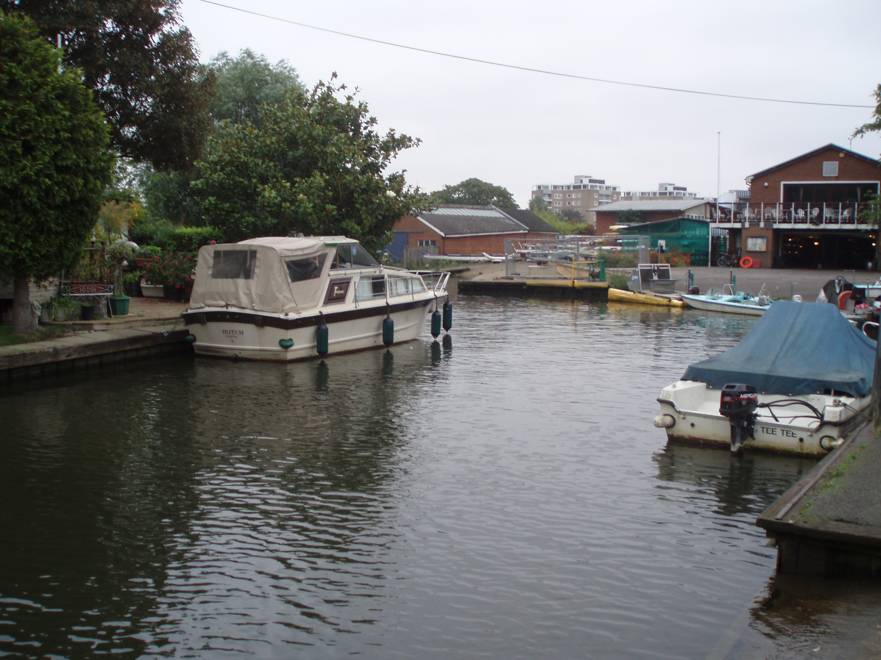 Trowlock Island, Teddington A privately managed island, who had their ferry rent put up from £30 to £5,000 in January 2006.